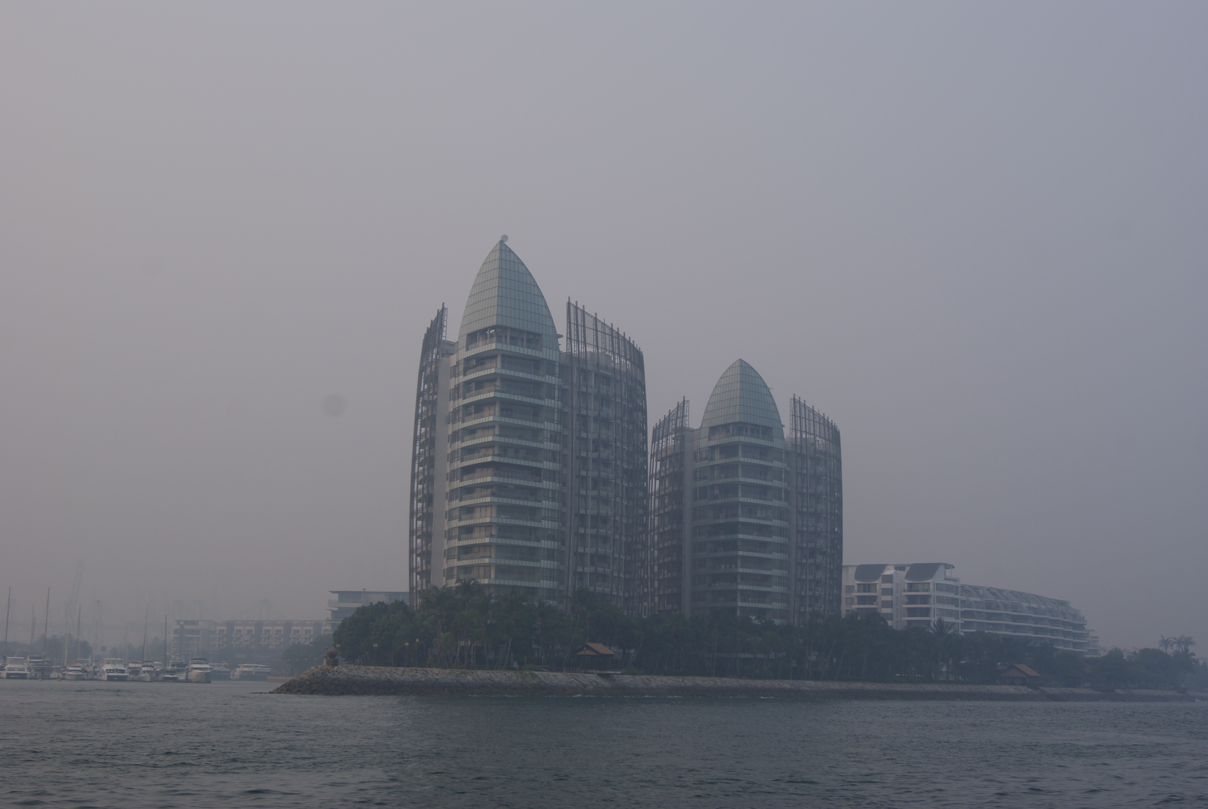 The Oceanfront@Sentosa Cove, a condominium in Sentosa Cove, Sentosa, Singapore, on a hazy evening, seen from a yacht.